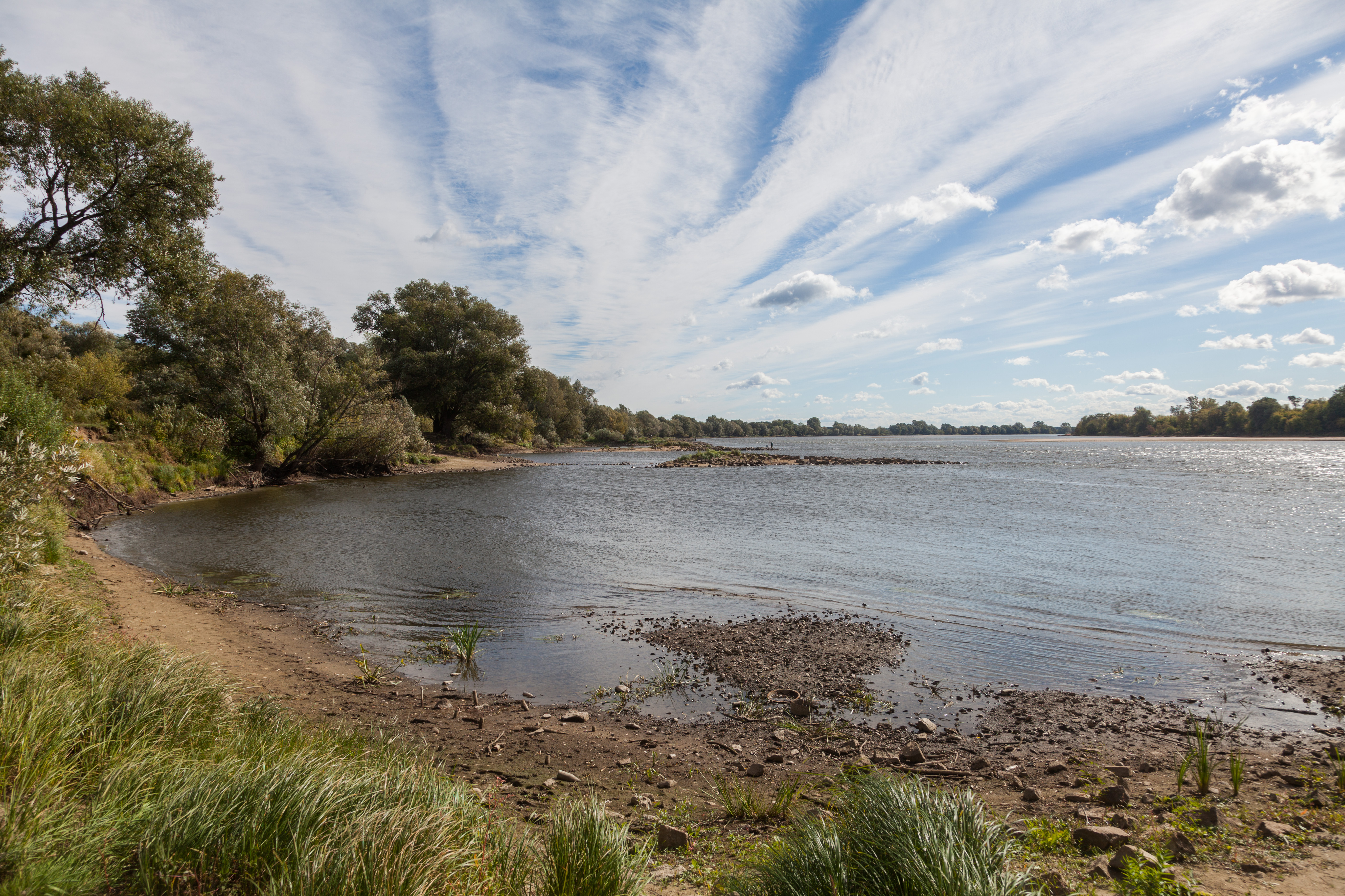 Vistula in Toruń.